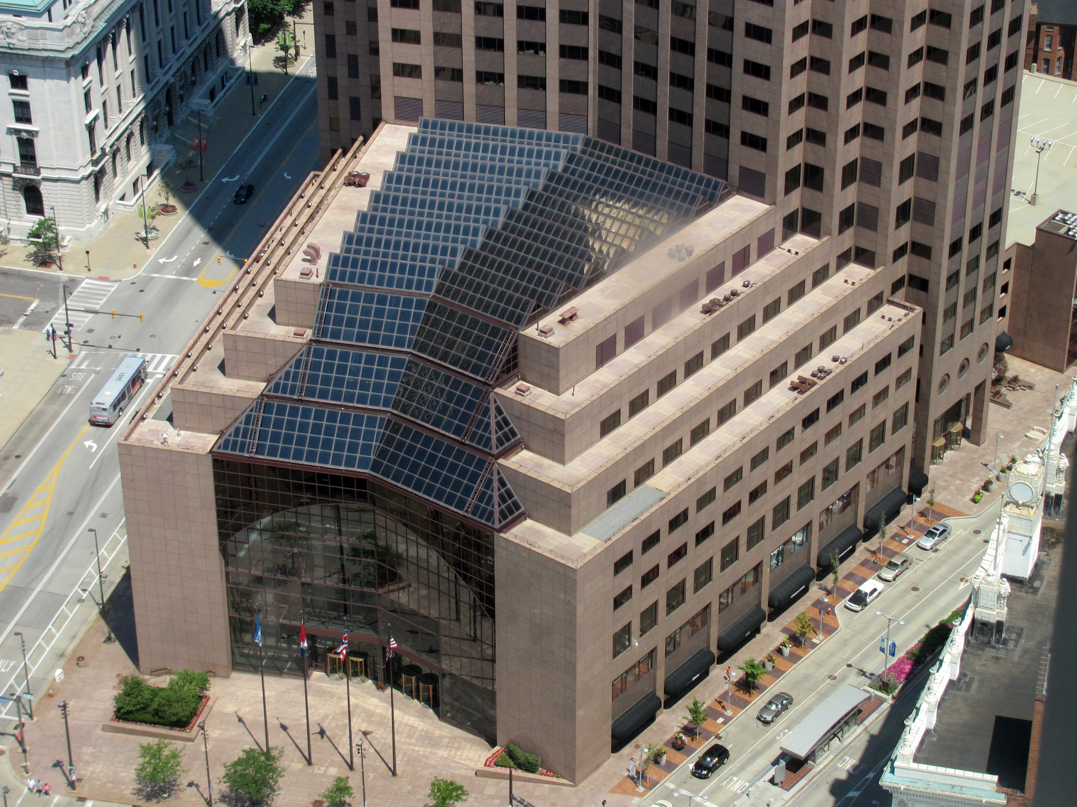 The atrium of w:200 Public Square as seen from the Terminal Tower observation deck.